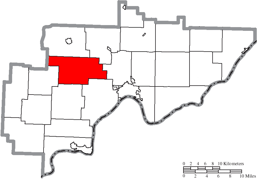 Map of the municipal and township boundaries of Washington County, Ohio, United States, as of the 2000 census, with the location of Watertown Township highlighted. Township borders are shown only in unincorporated areas in order to differentiate incorporated and unincorporated areas more clearly.